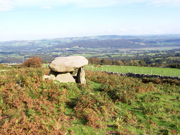 Maen-y-Bardd. Another view of this 4th millennium BC cromlech, or burial chamber, which shows its prominent position above the Conwy Valley.